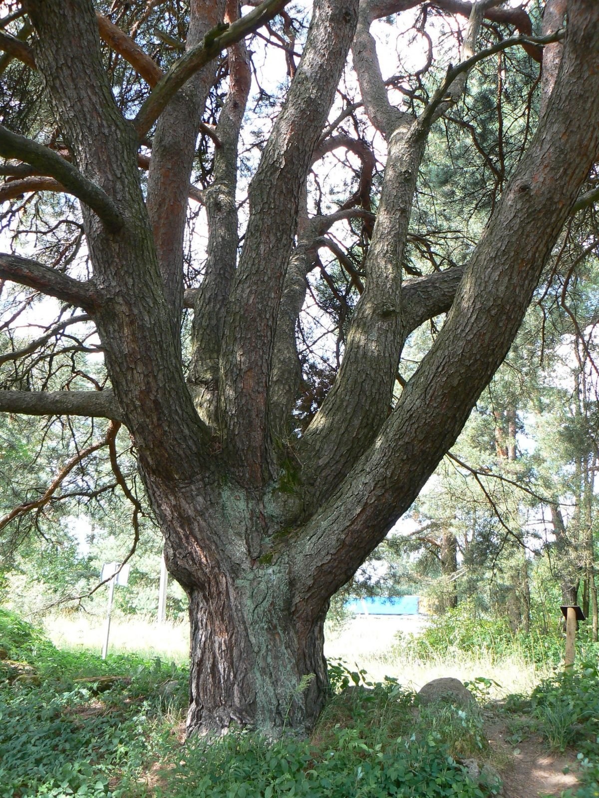 The pine with 7 branches in Estonia